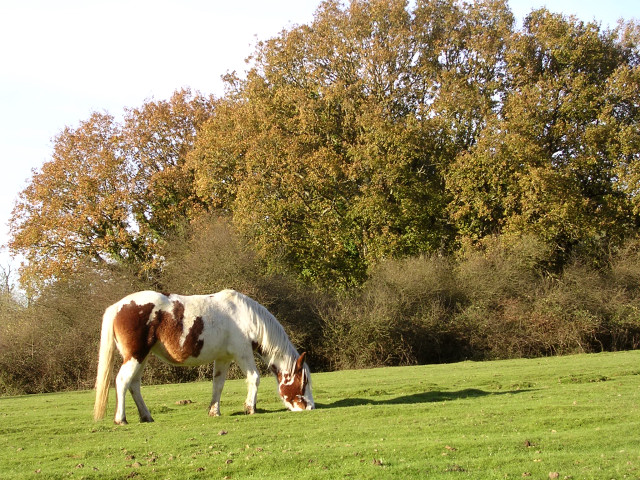 Grazing pony on the slopes of Lodge Hill, New Forest. This pony is grazing on land which used to be part of the Ashely Walk keeper's lodge, northeast of the Pitts Wood Inclosure. When the area was used as a bombing range during the Second World War the building was left to ruin, and after the war it was demolished. Now the grounds are an unusual area of grass in a heathland setting.